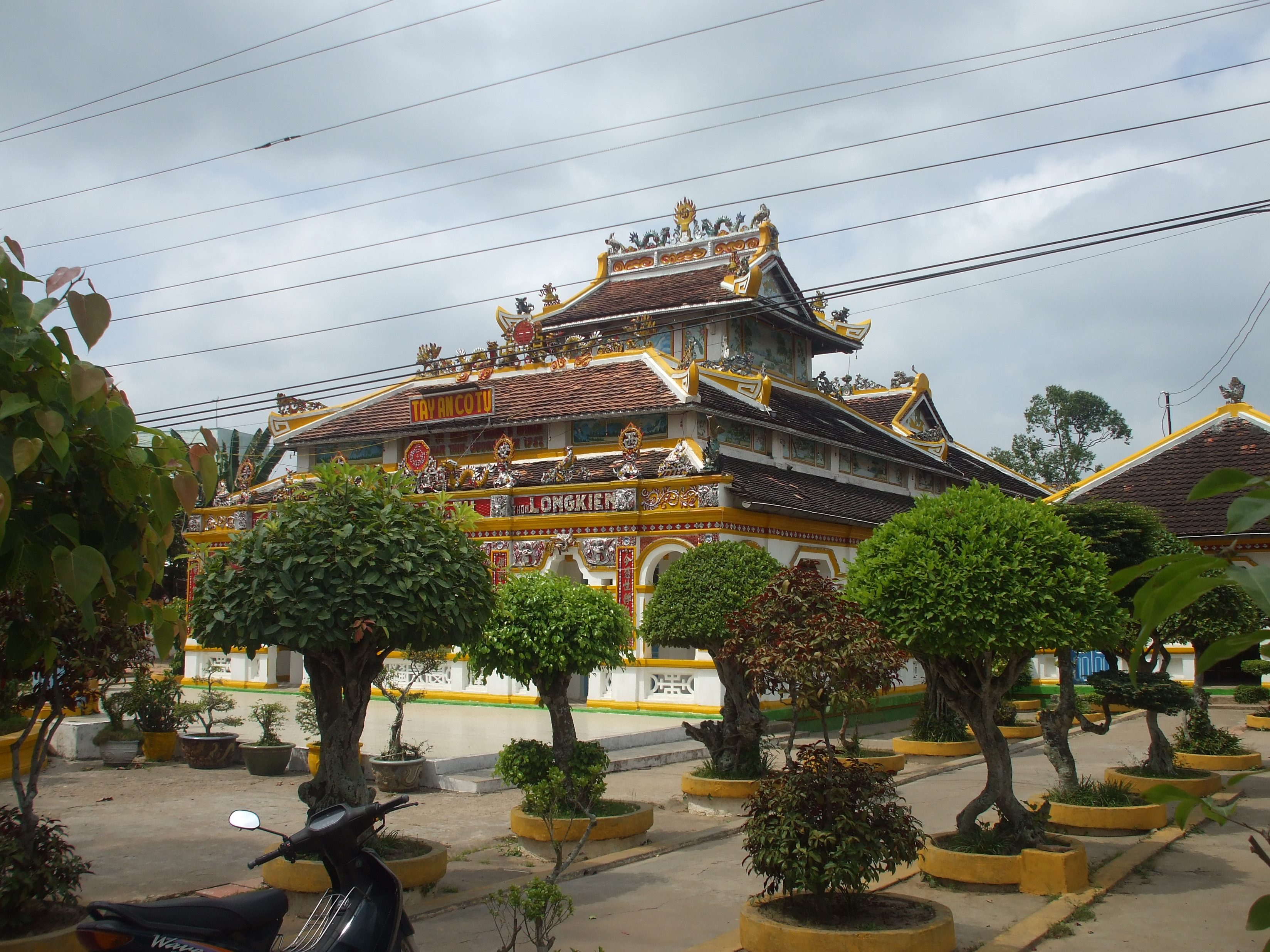 Tây An Cổ Tự Pagoda in Cho Moi, An Giang Province, Vietnam